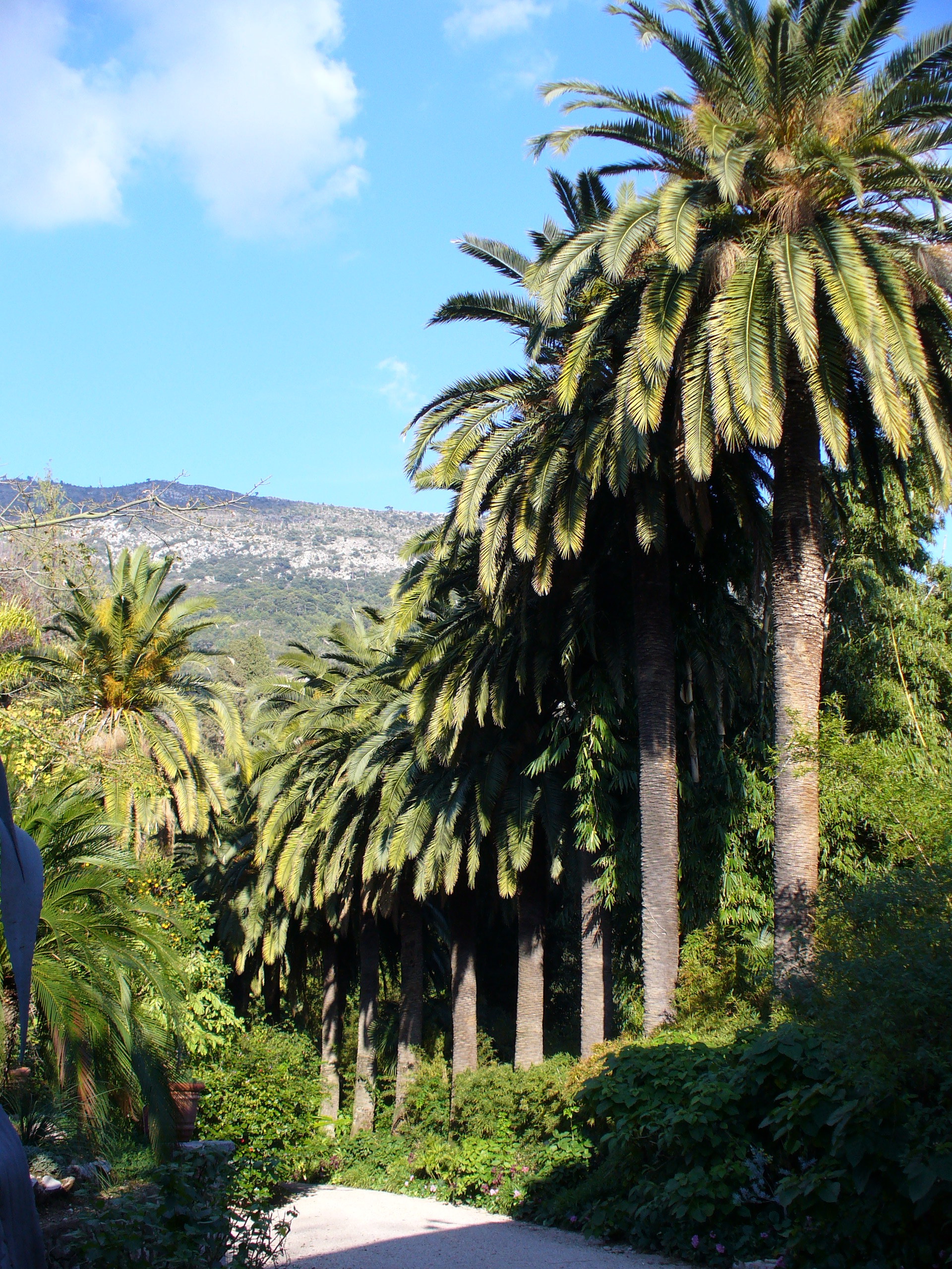 Val Rahmeh botanical garden, Menton, France